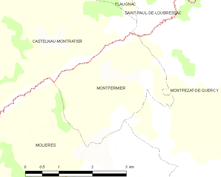 Map of French municipality Montfermier